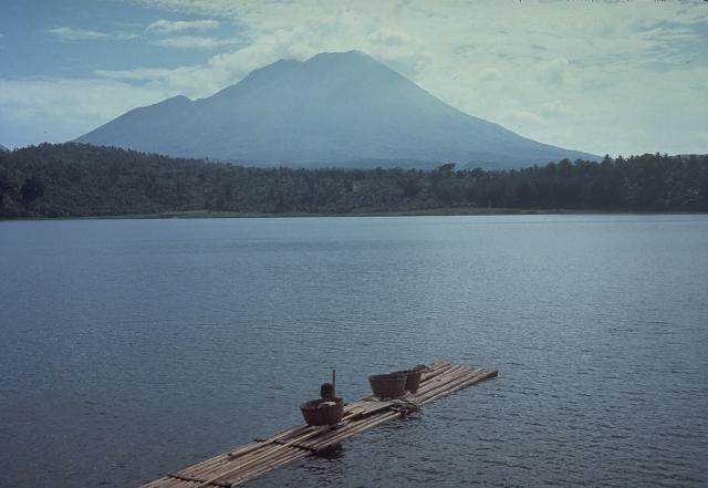 Lamongan, a small 1631-m-high stratovolcano located between the massive Tengger and Iyang-Argapura volcanoes, rises above Lamongan Lake on its western flank